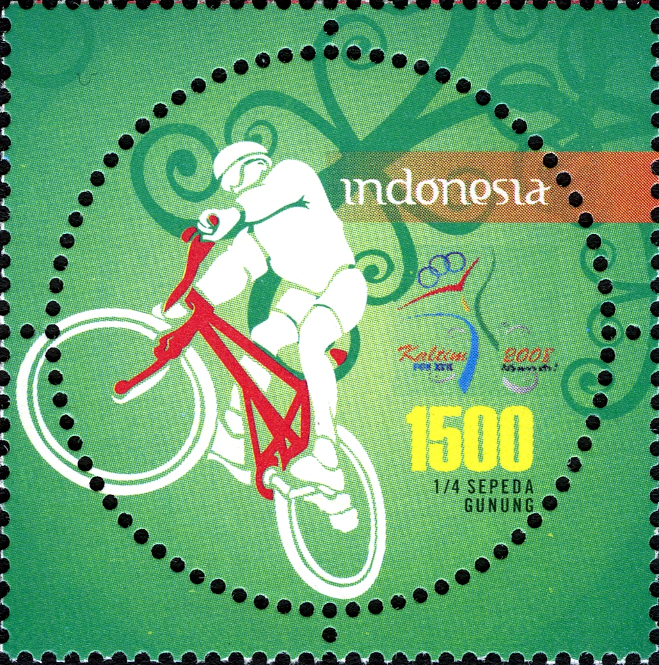 Stamps of Indonesia